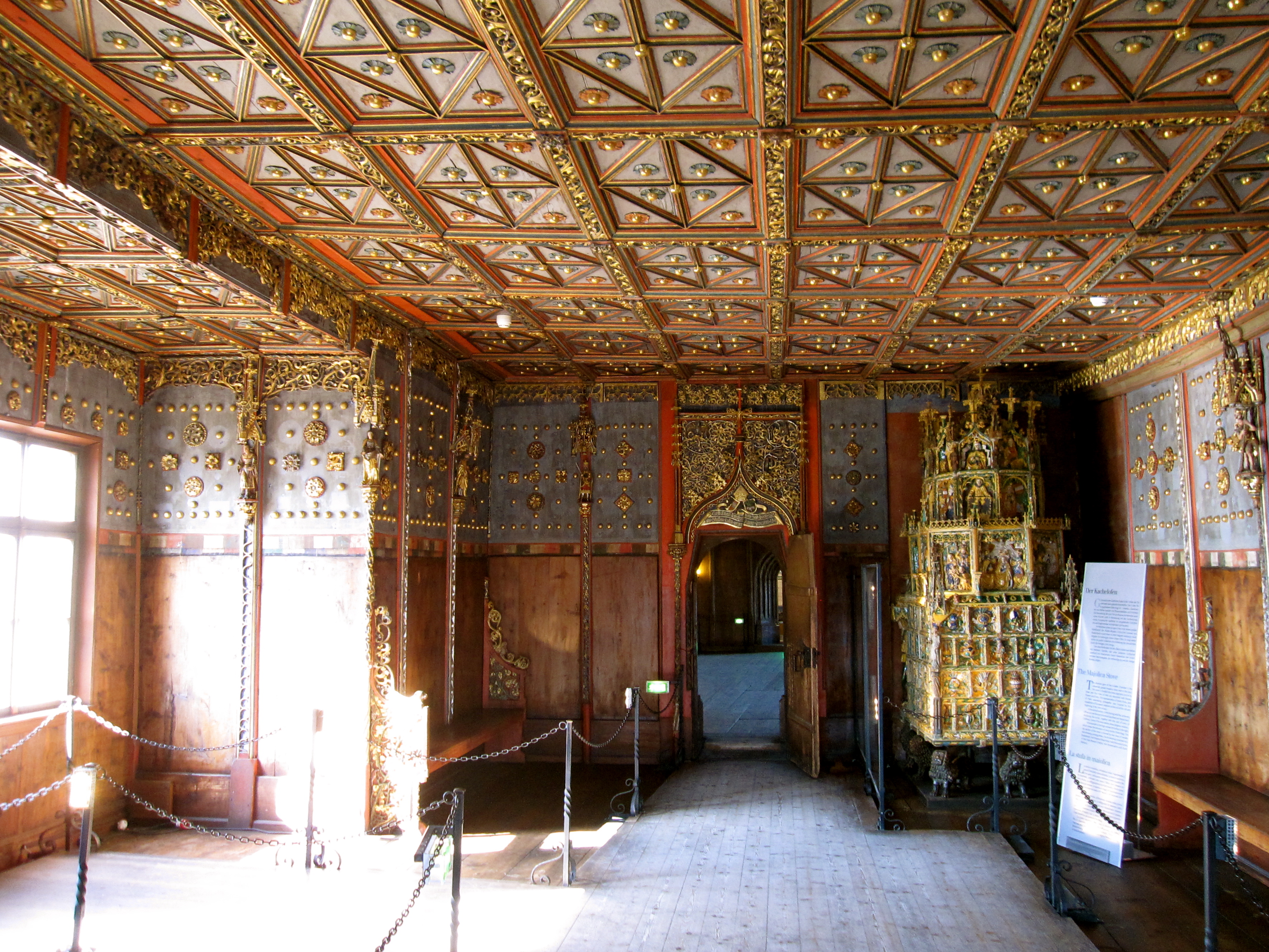 Golden Chamber of Hohensalzburg Castle.